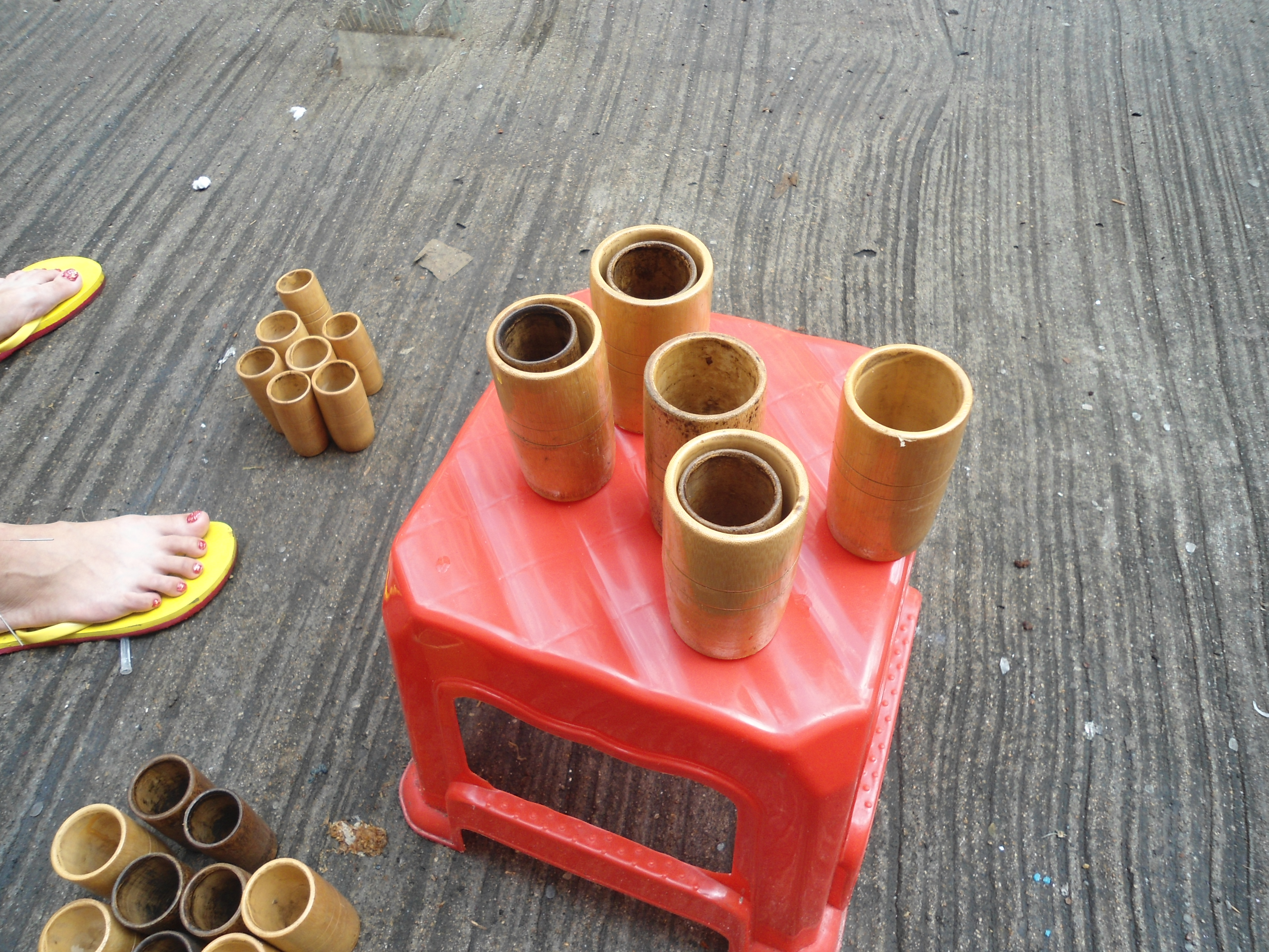 Fire cupping bamboo cups used in a roadside fire cupping business, Haikou, Hainan, China.